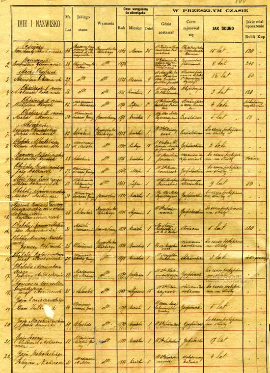 List of Radziwłł's foresters with mention of Michał Mickievič (Jakub Kołas father)